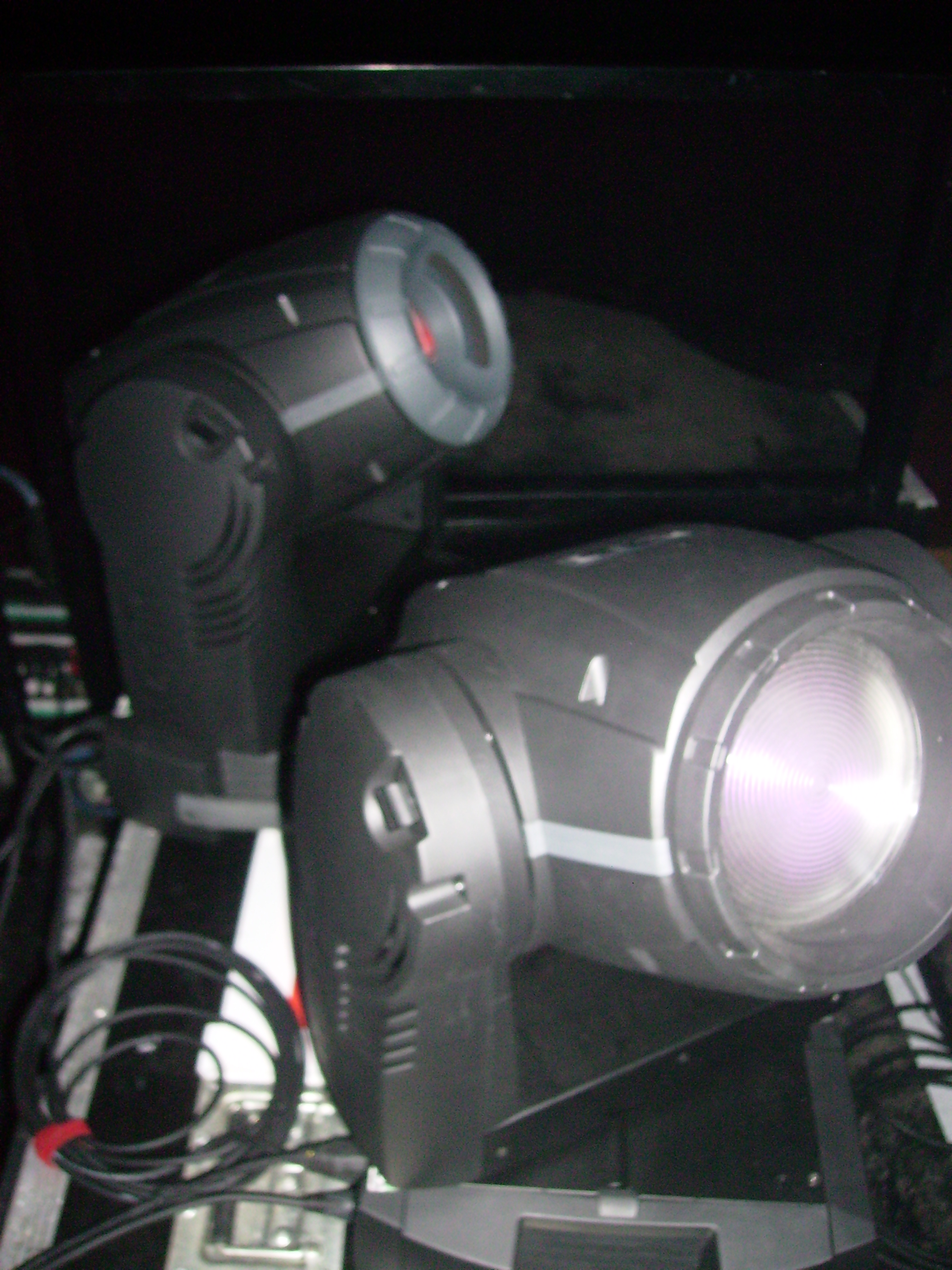 A martin mac 250 entour (profile - top) and mac 250 wash(wash - bottom).